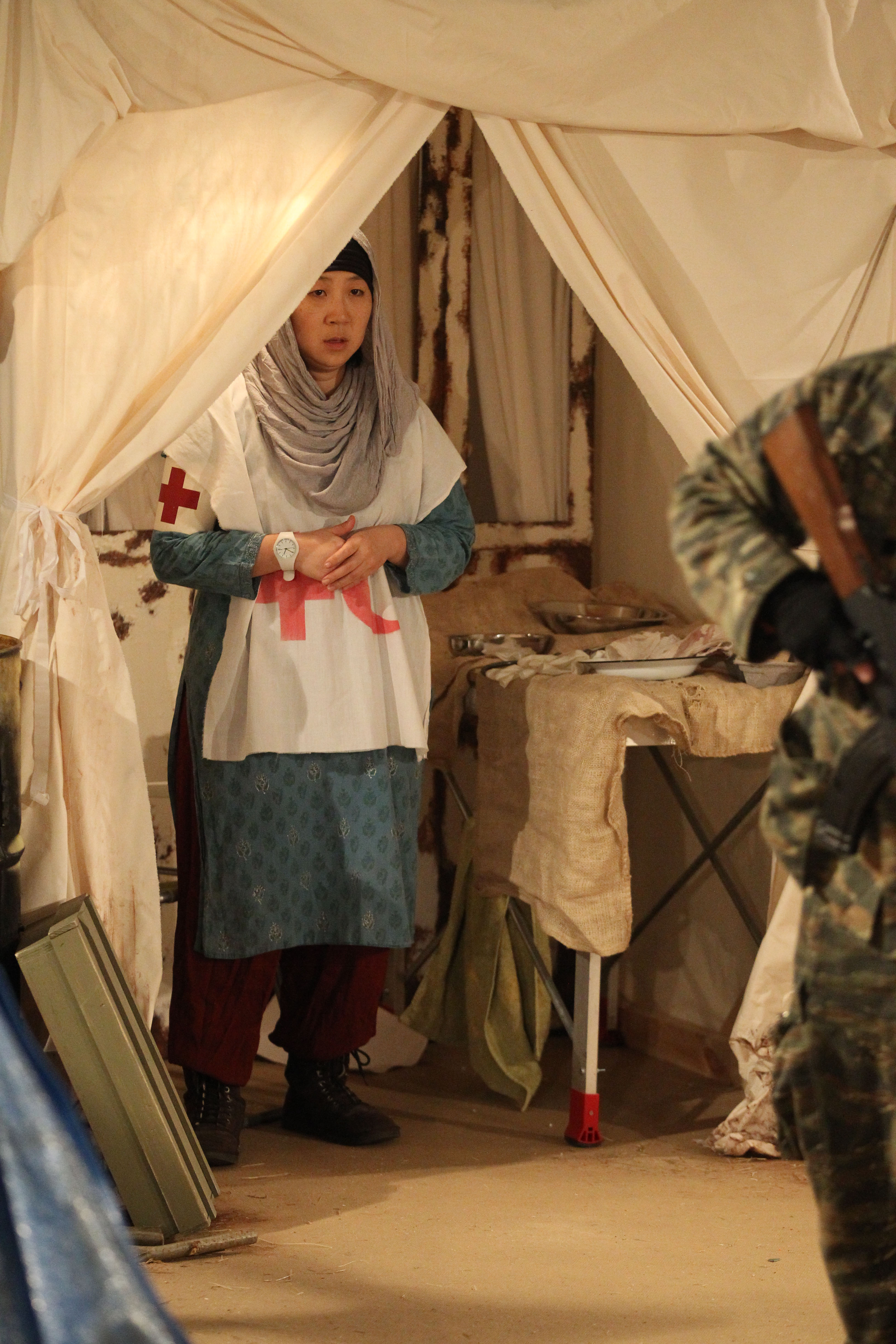 'A Day in the Life of a Refugee', run by Crossroads Foundation, invites participants to take a few steps in the shoes of refugees, through a simulated environment which re-creates some of the struggles and choices they face to survive, each day. 2016-01-21 12:30 session © David McIntyre/Crossroads Foundation Ltd.